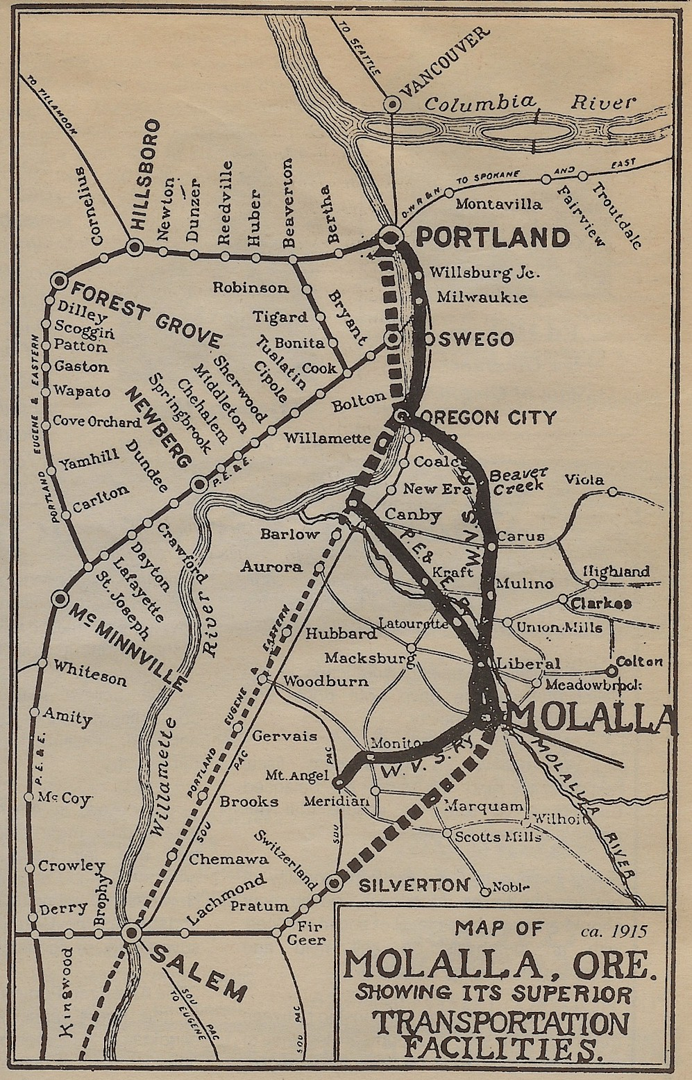 Map showing roads and rairoads leading to Molalla Oregon.